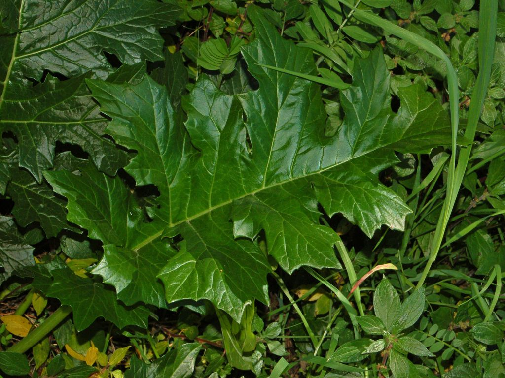 Acanthus mollis - S. Bernardo, Genova, Italy